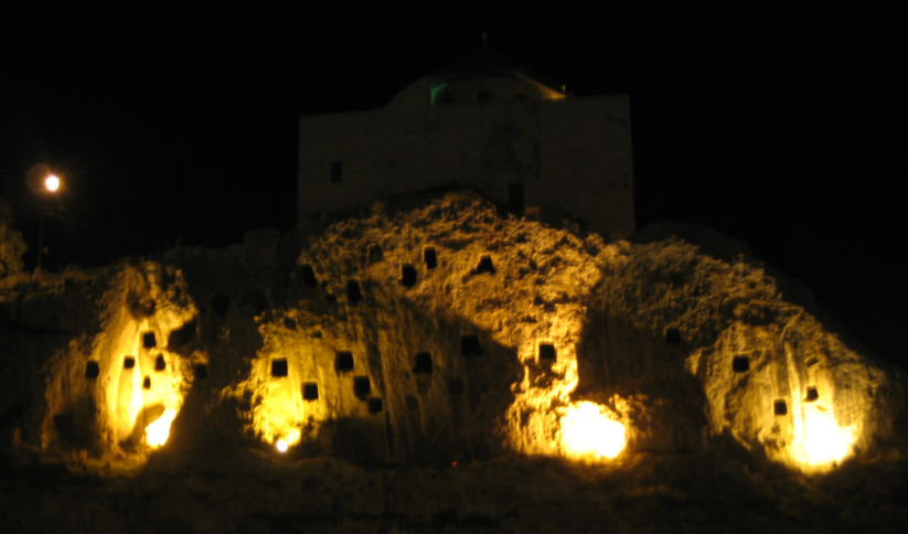 Photo of church in Amioun, Lebanon.